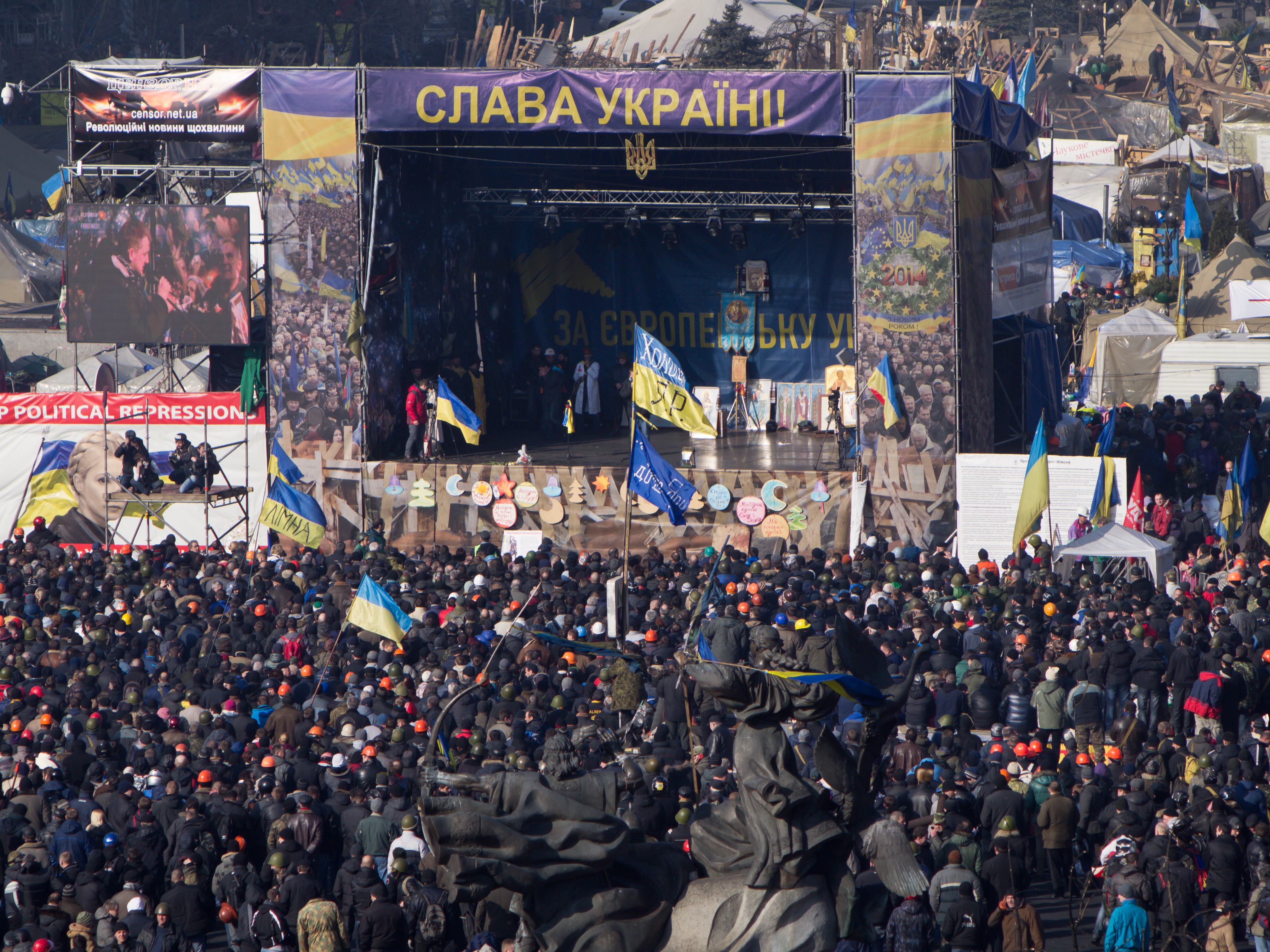 Euromaidan in Kiev, 21 February 2014.